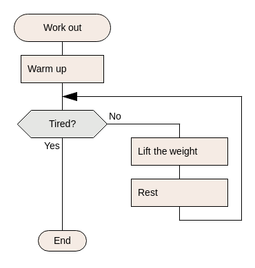 A check-do loop in DRAKON